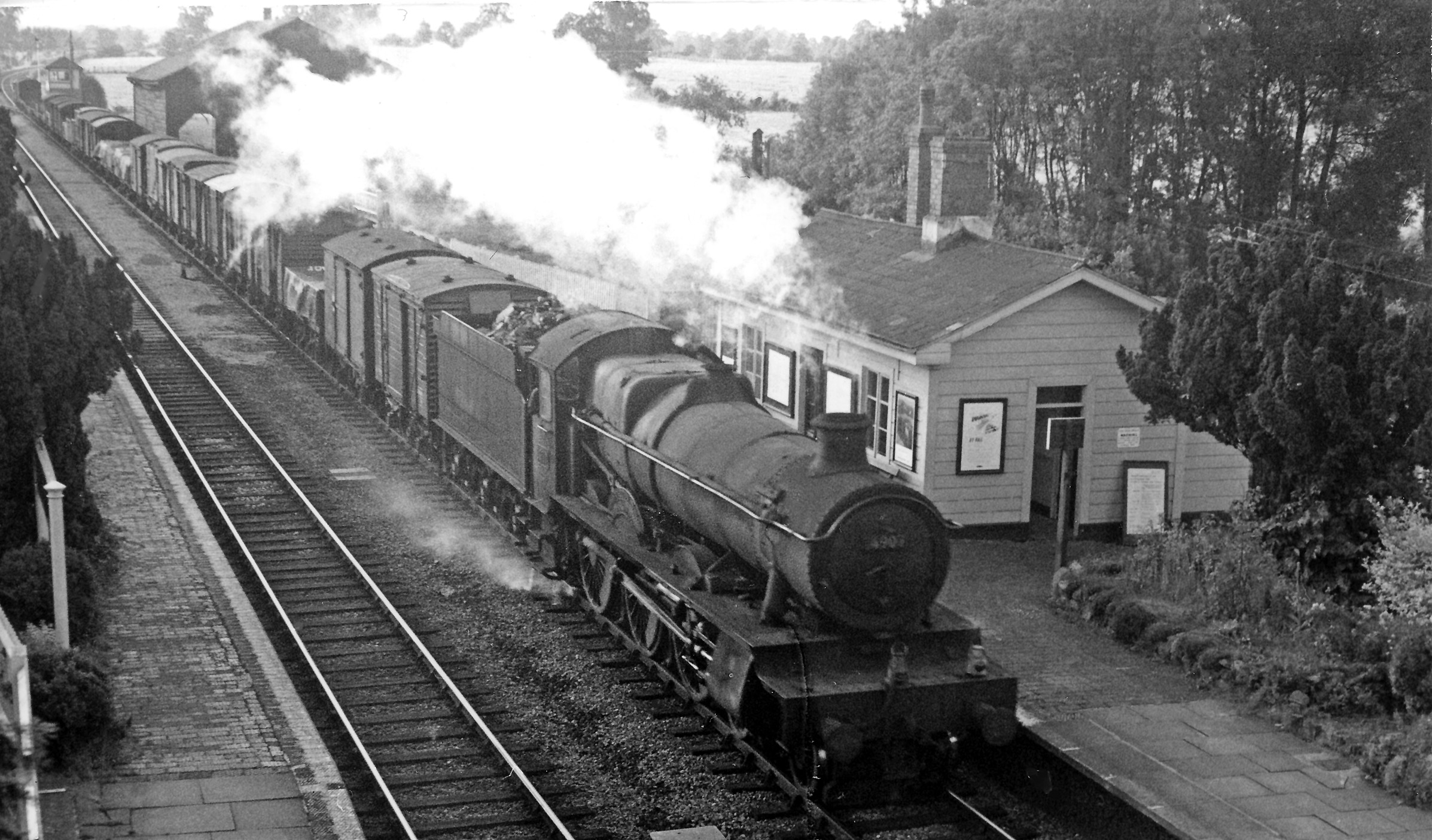 Adlestrop Station, with train. View NW, towards Worcester; ex-Great Western (London etc.) - Didcot - Oxford - Worcester main line. The station was closed on 3/1/66, but the line is again busy nowadays, with the sections singled in the past now all being returned to normal double line. The train is an Up Class E freight typical of the time, headed by 4-6-0 'Hall' Class 4907 Broughton Hall.